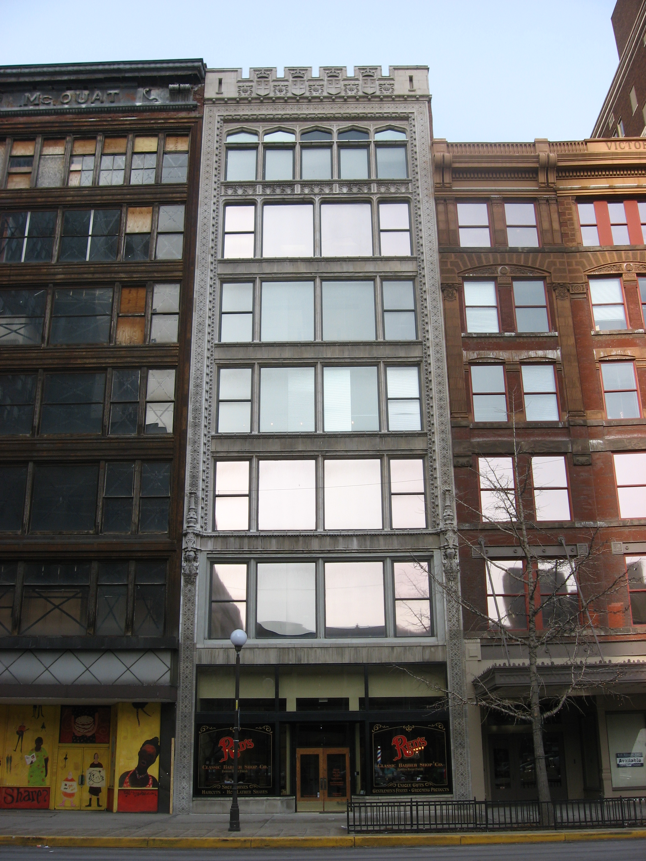 Front of the former Marott's Shoes Building (now a barbershop), located at 18-20 E. Washington Street in downtown Indianapolis, Indiana, United States. Built in 1899, it is listed on the National Register of Historic Places, and it is a part of the Register-listed Washington Street-Monument Circle Historic District.